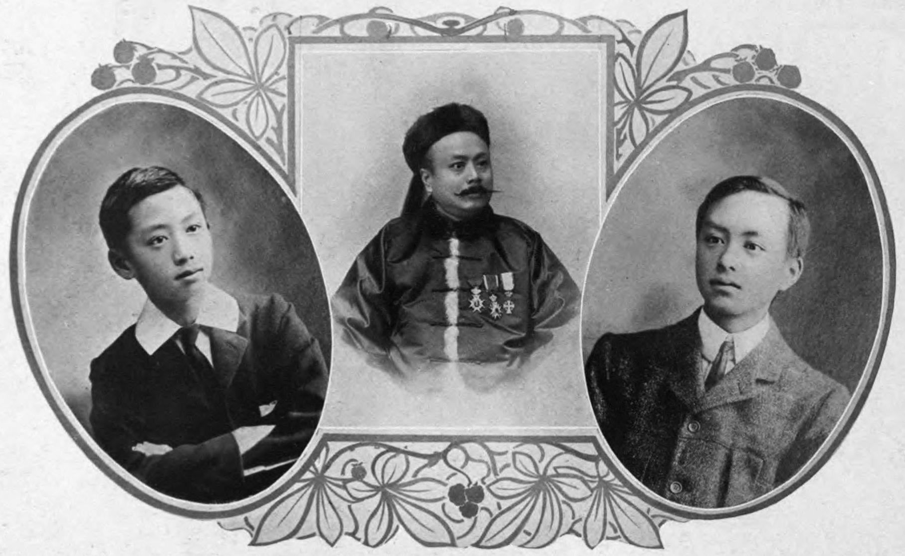 y c tong and his sons albert and george